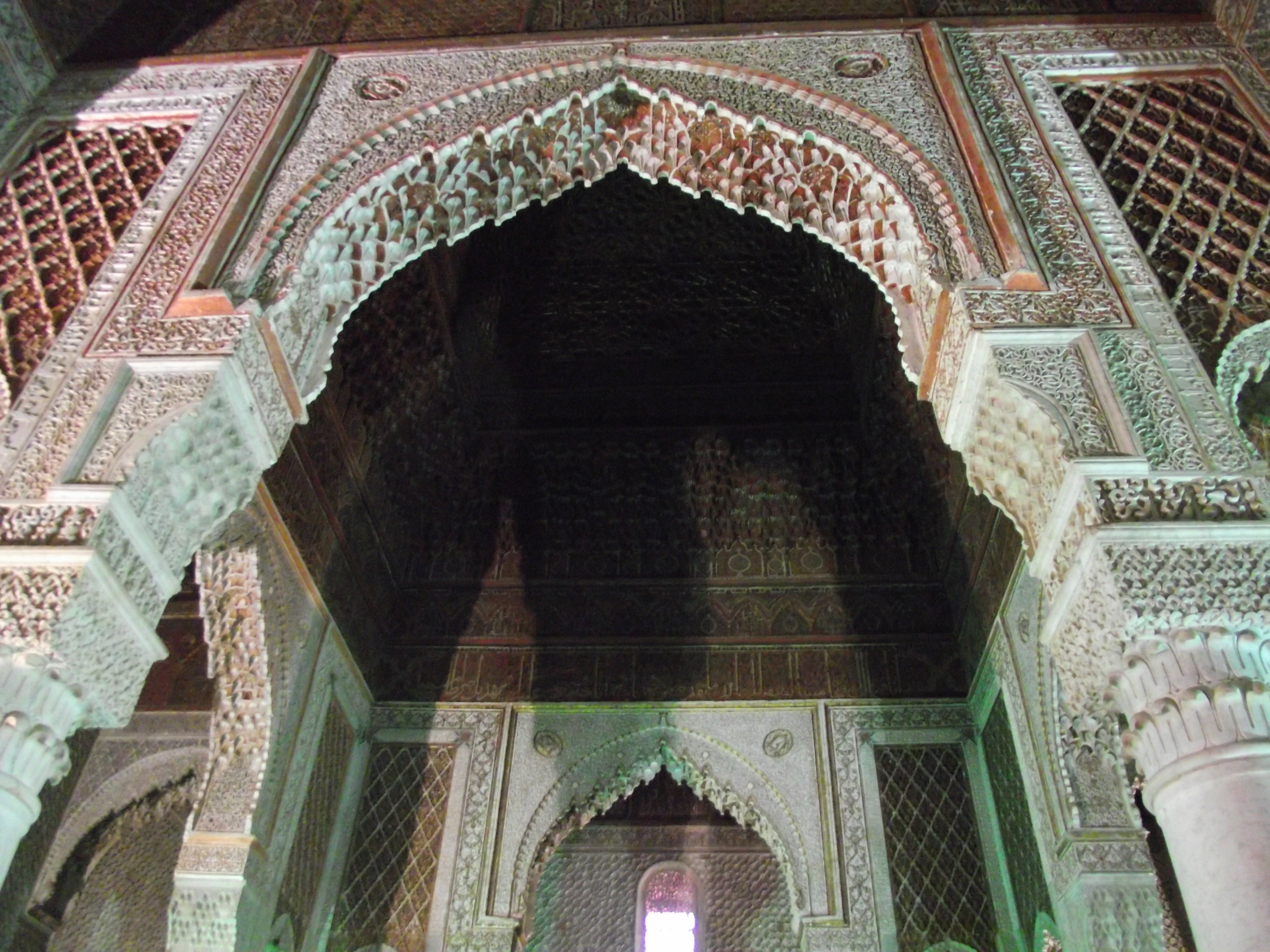 Marrakech, Saadian Tombs